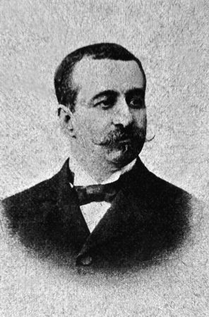 Former Prime Minister of Greece Kyriakoulis Mavromichalis (1850–1916).